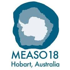 Logo for the Marine Ecosystem Assessment for the Southern Ocean 2018 conference